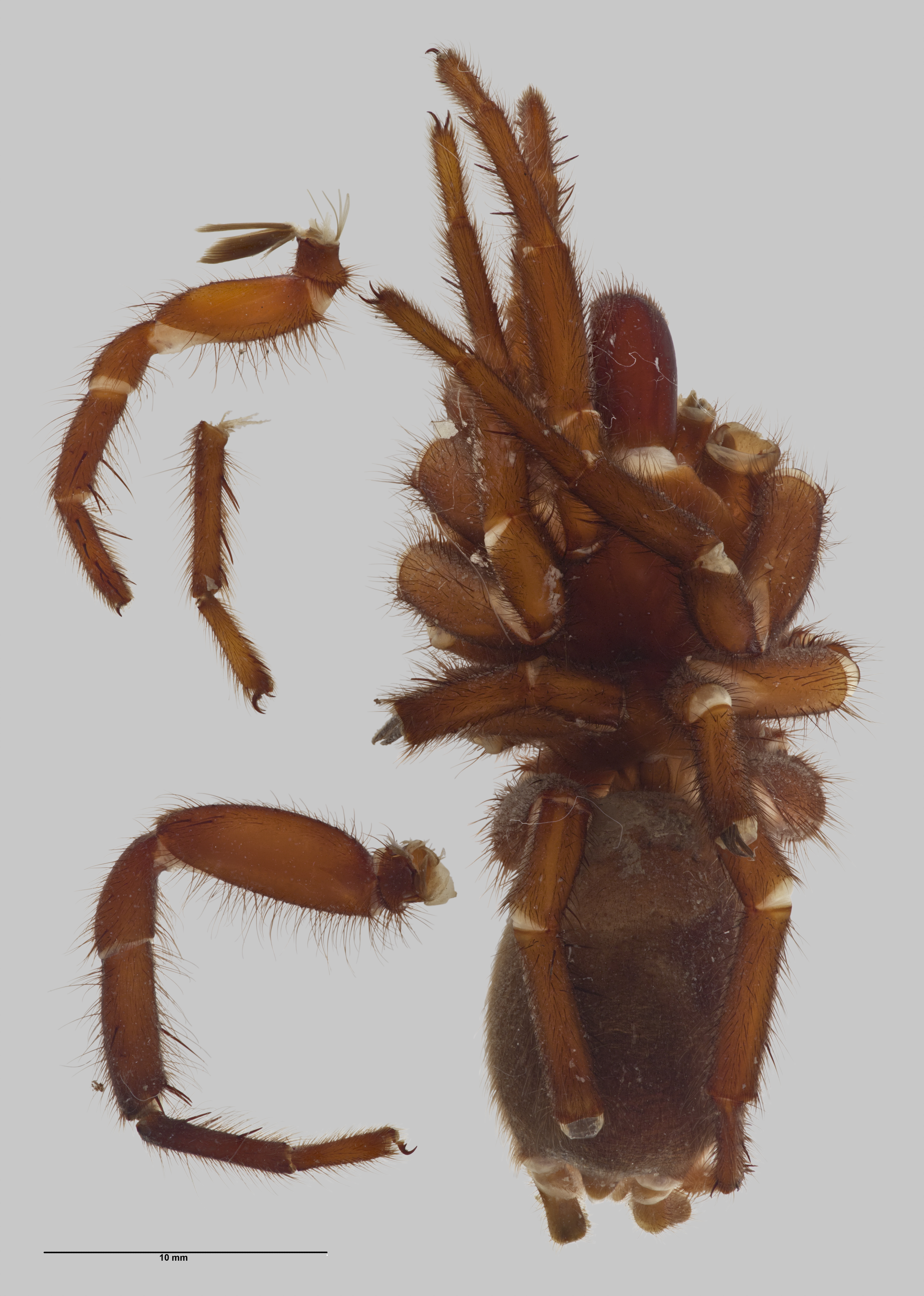 Dorsal view of the holotype specimen of Hexathele pukea AMNZ5056 held at the Auckland War Memorial Museum.